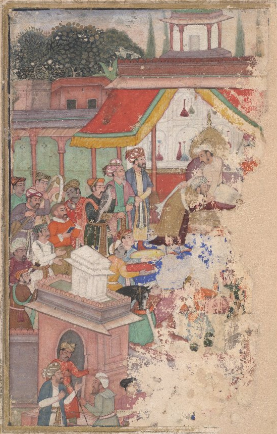 Painting. Court. Jahangir investing a courtier with a robe of honour watched by Sir Thomas Roe, English ambassador to the court of Jahangir at Agra from 1615-18, and others. On paper. Colophon on verso gives calligrapher's name, As`af `Ibadallah al-Rahim and date 23 Ramadan 985/4 December 1577.